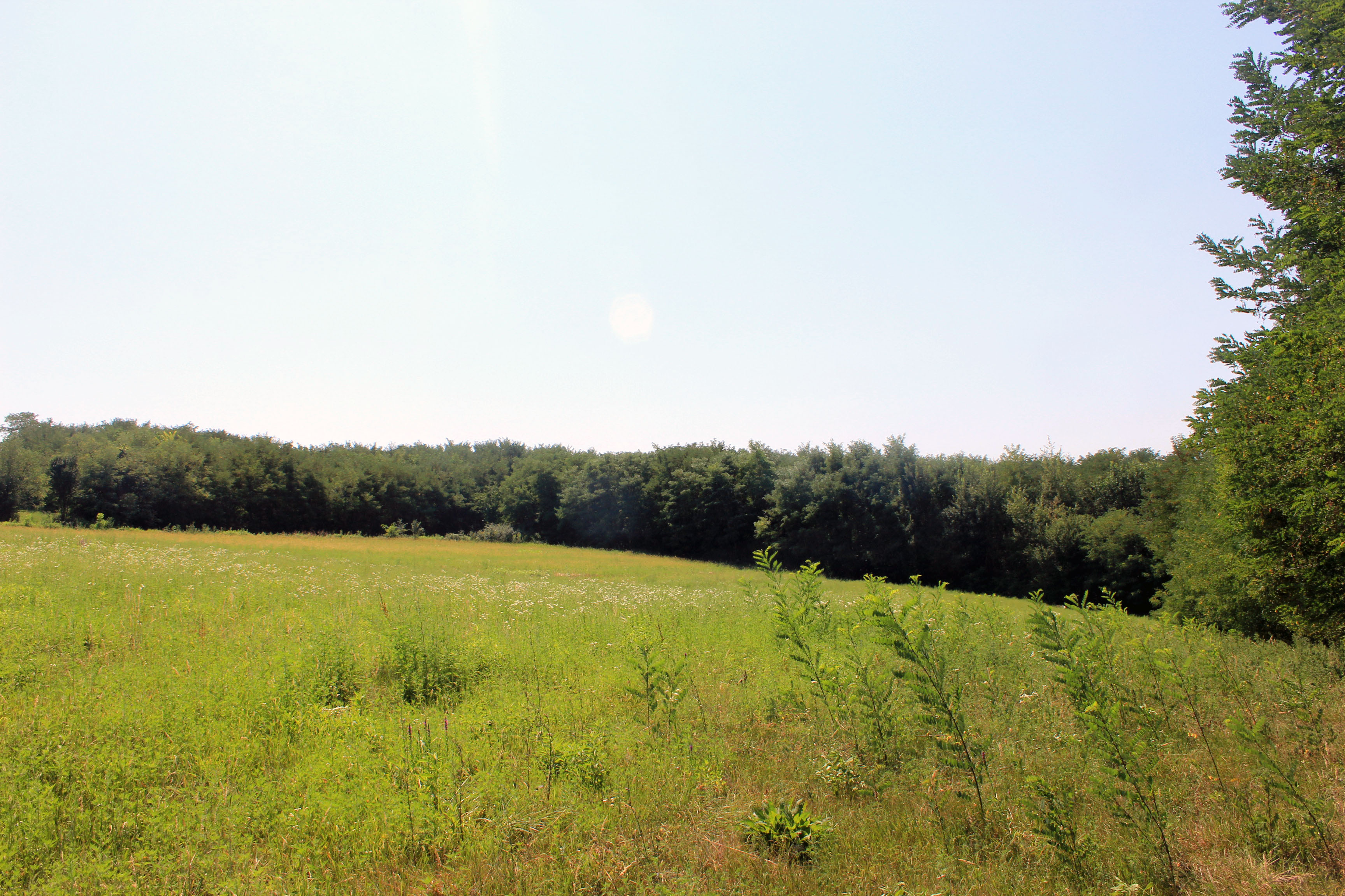 Place of battle of Čokešina